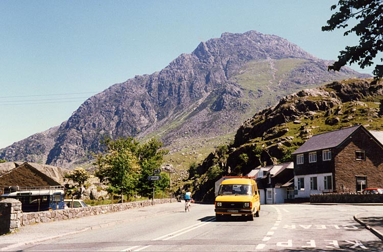 Tryfan is one of the most recognisable summits in Snowdonia. It is a mountain having the classic pointed shape, rugged crags and accessibility from a nearby road. Although the ascent of Tryfan is a short walk of around 6 miles, around 2500 feet of ascent is involved, much of it over steep and rocky ground. However, this is a walk (or rather scramble) most people can undertake although it must be stressed that Tryfan is not a mountain to be treated lightly. In bad weather - snow and ice or high winds - it can be a dangerous place.